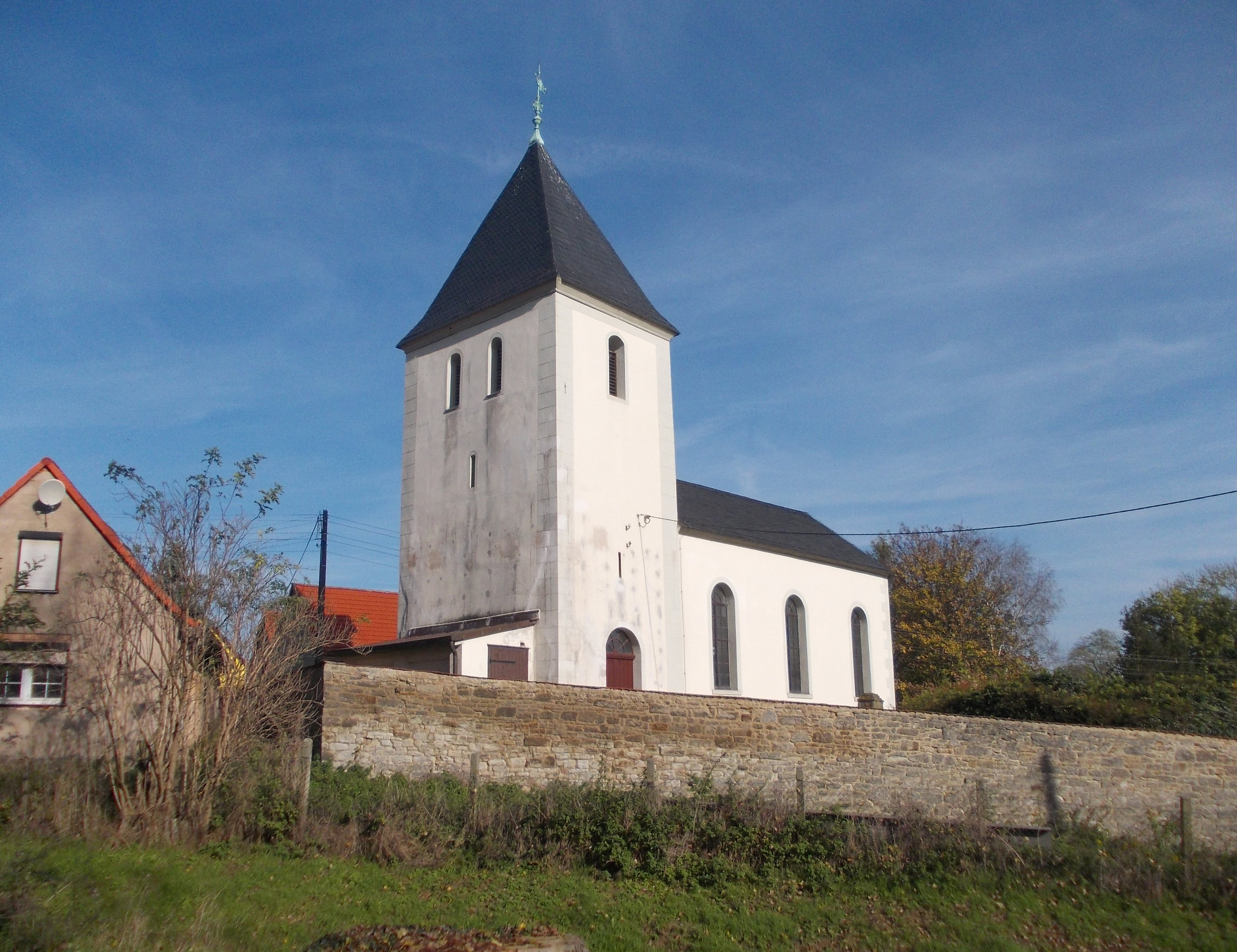 Our Lady's Church in Räther (Salzatal, district: Saalekreis, Saxony-Anhalt)